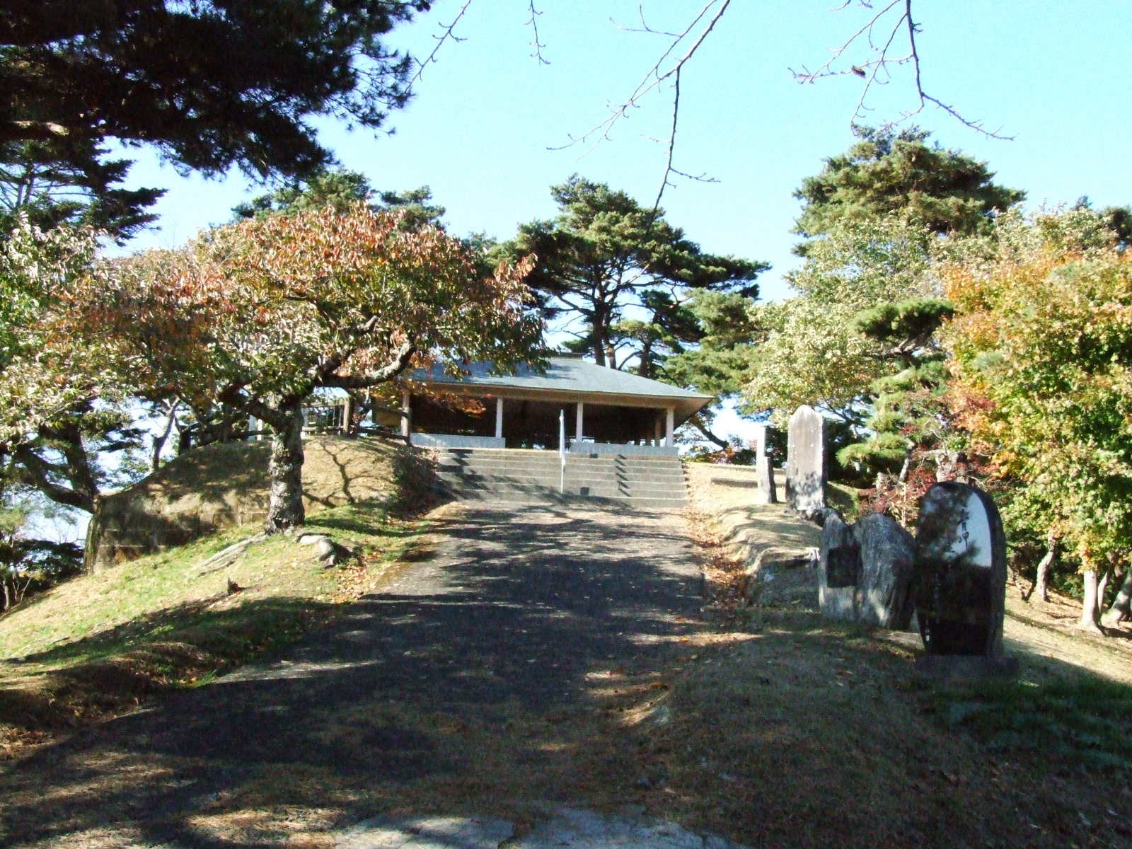 Mount Shintomi. Matsushima, Miyagi prefecture, Japan.